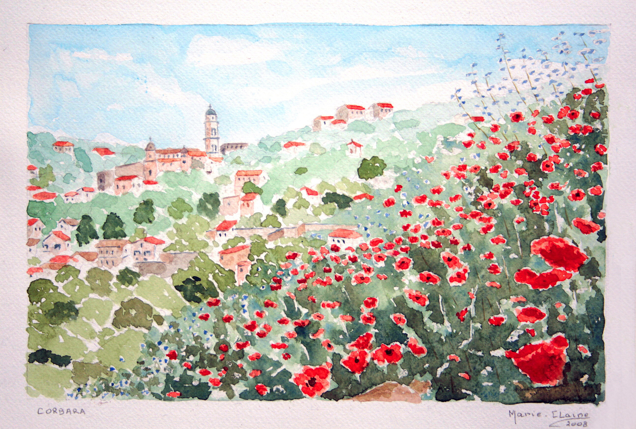 Corbara ( Haute-Corse) - France, the village.